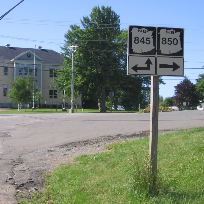 Self made photo to illustrate the article New Brunswick Route 850. Cropped.